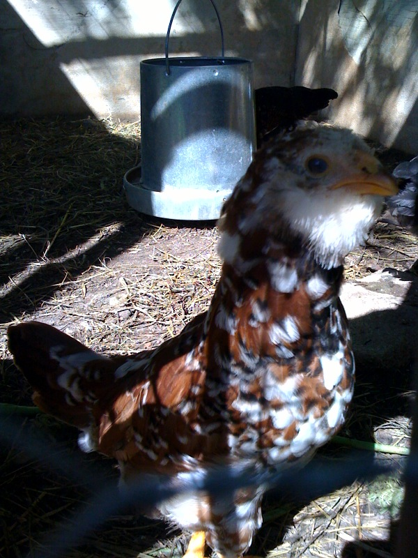 The Orloff is a breed of chicken who is named after Alexey Grigoryevich Orlov, a Russian Count. Reflecting this moniker, it is sometimes called the Russian Orloff or simply Russian.